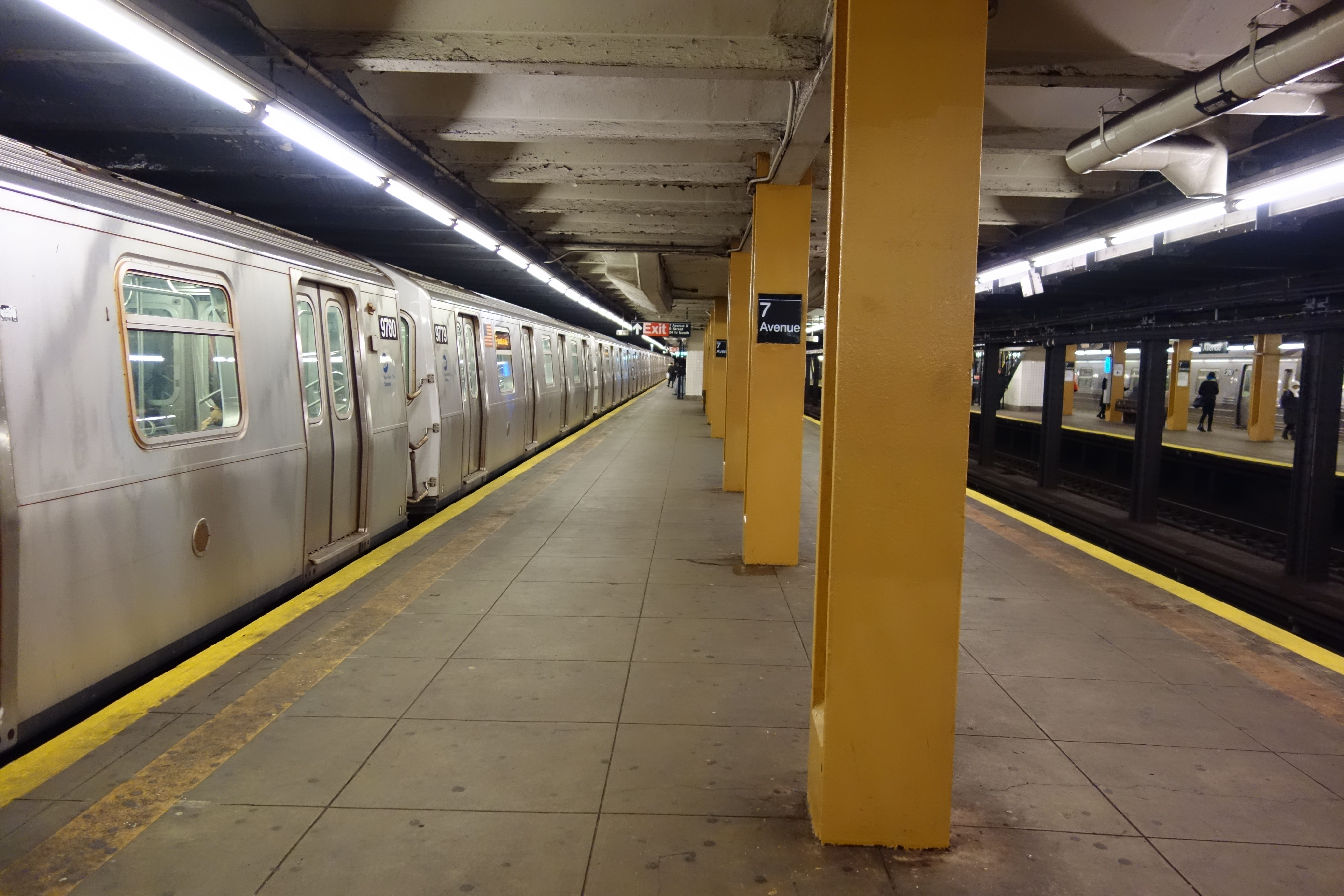 The Brooklyn-bound platform of the 7th Avenue IND Culver station, near Prospect Park under 9th Street and 8th Avenue in Park Slope, Brooklyn. The station shares the same general layout and tiling design of the Kew Gardens–Union Turnpike station in Queens, but is quite different. It is in a much poorer state of repair. It has only center support beams, similar to the Canal Street and 14th Street IND stations. And finally, there are no switches between the local and express tracks, which is the most unusual characteristic.